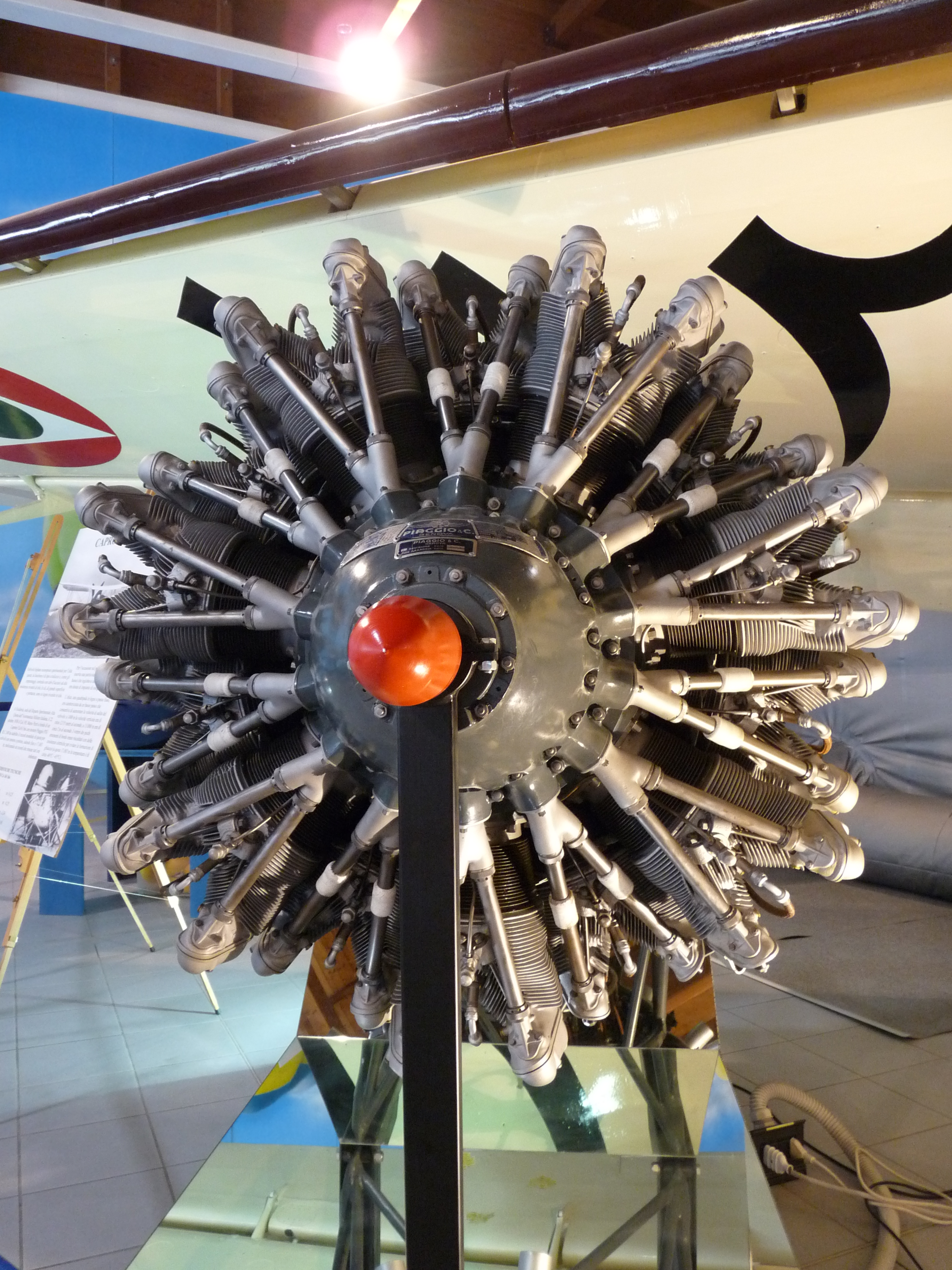 Trento (Italy): a Piaggio engine in the main hangar of the Museum of Aeronautics Gianni Caproni.